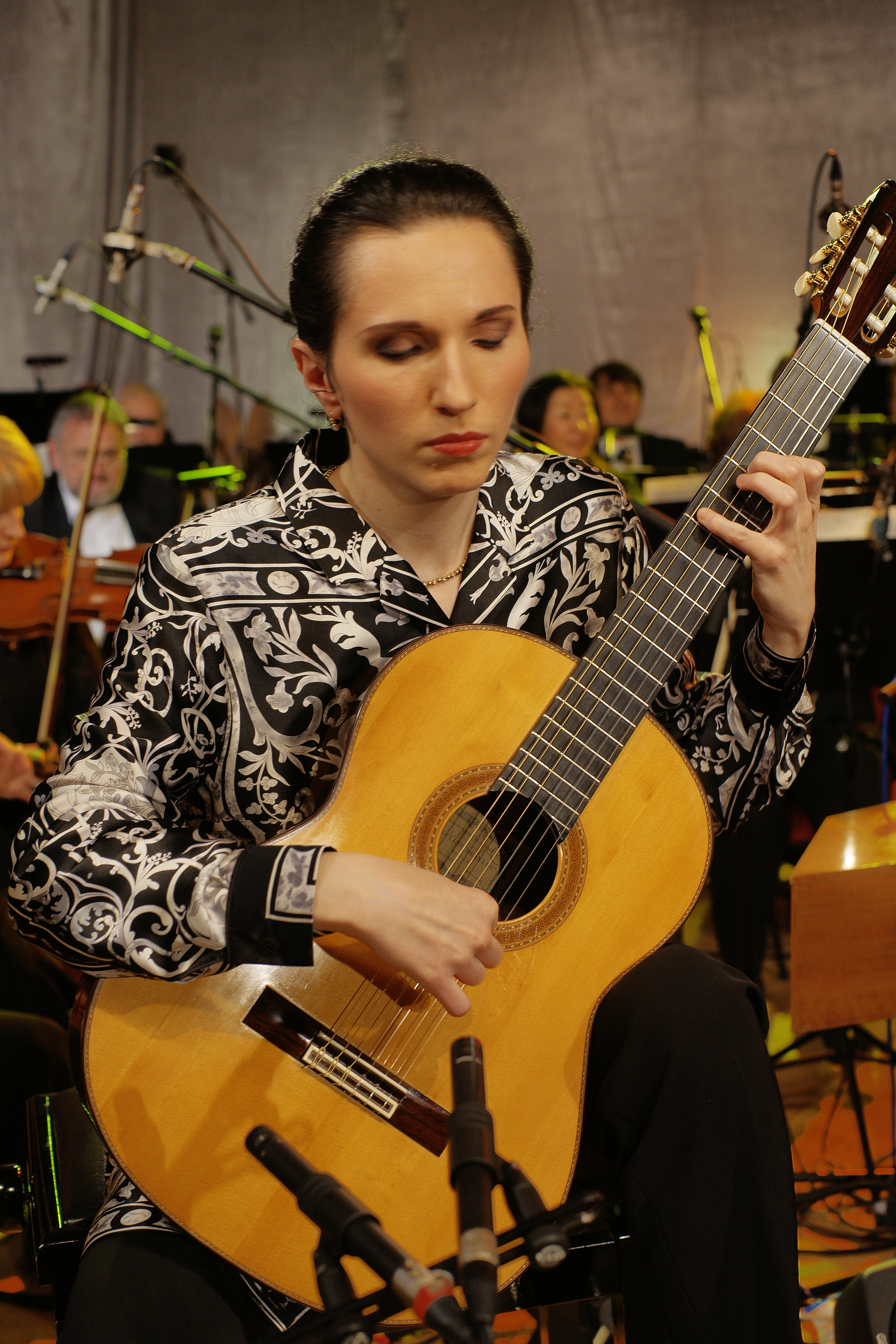 Johanna Beisteiner during a live performance with the Budapest Symphony Orchestra conducted by Béla Drahos at Hubay Hall (Budapest, Hungary)